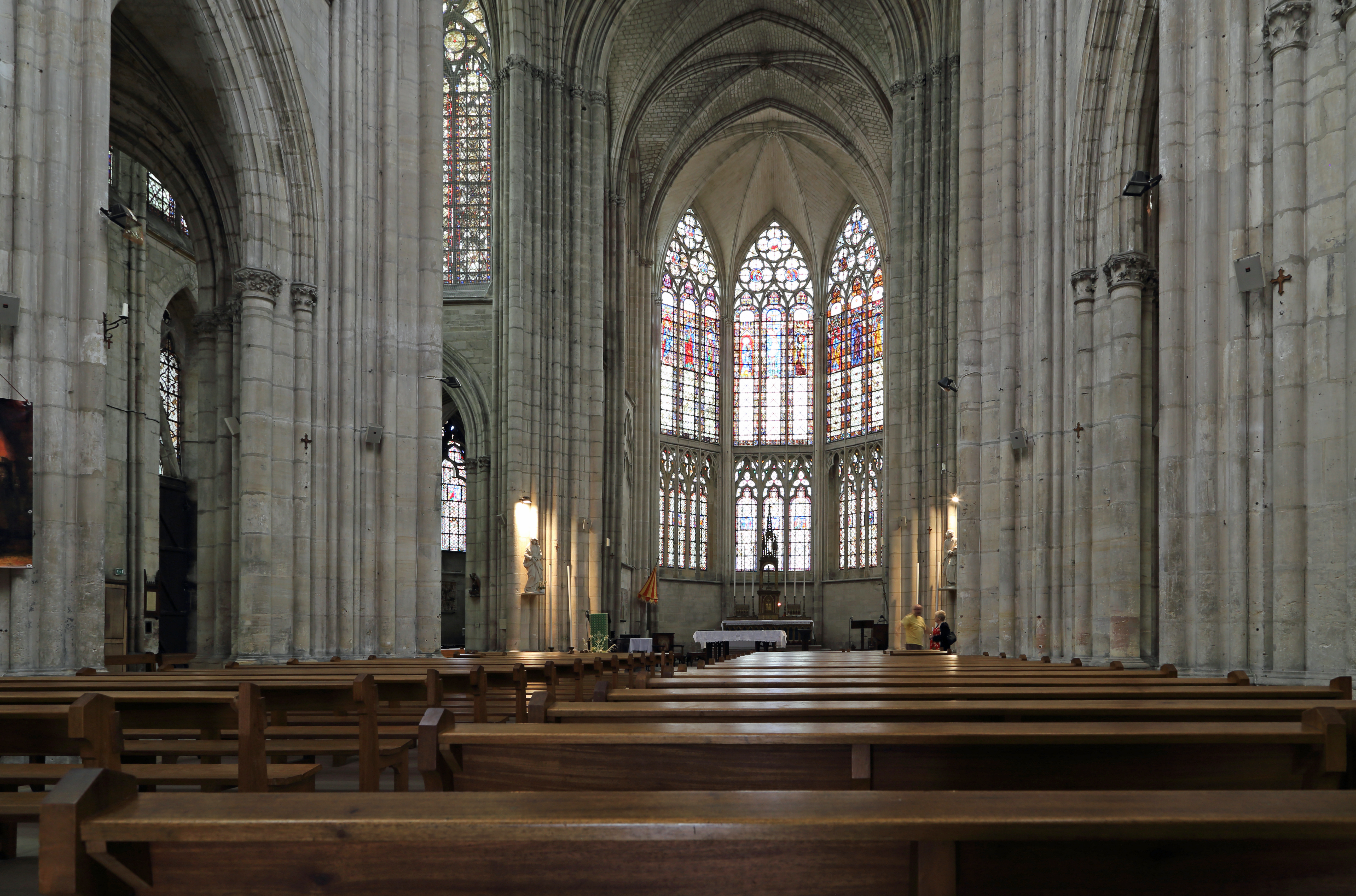 Troyes (Aube department, France): interior of Saint-Urbain basilica